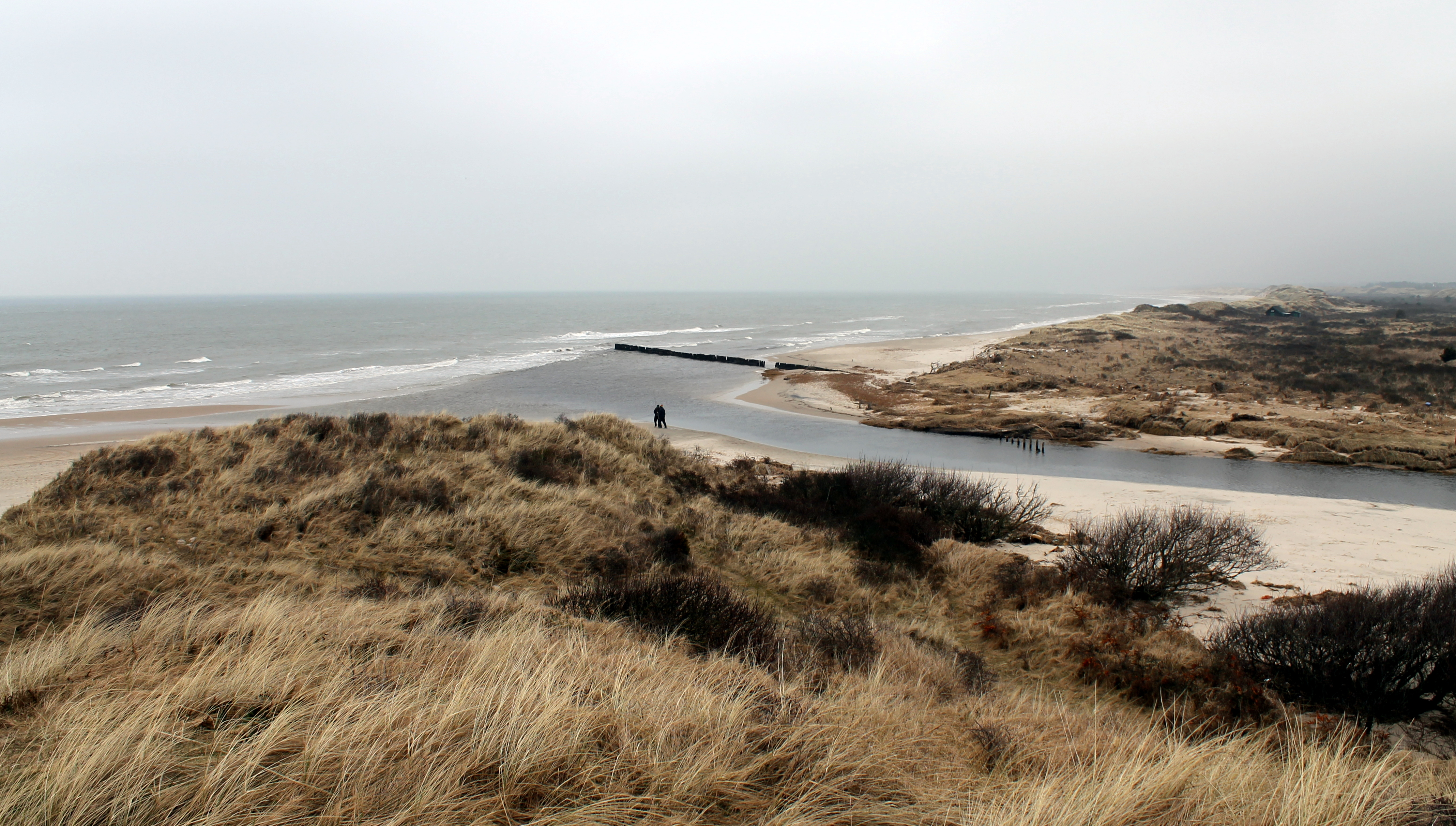 Uggerby Å river in Denmark, the mouth into Skagerrak (protected area)